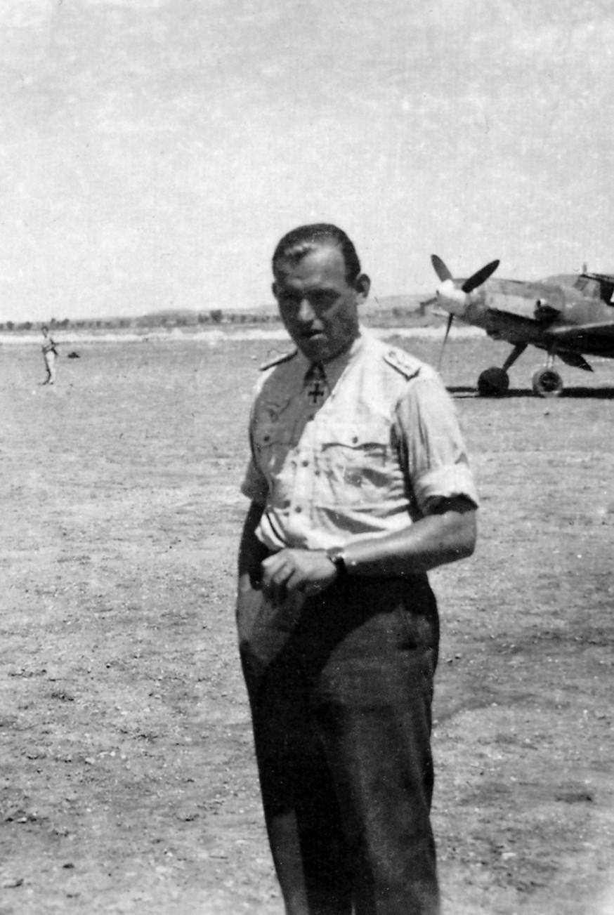 Heinrich Bär